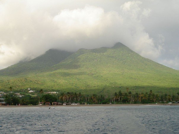 Picture taken June 20 2007 on ferry trip to Nevis taken myself.